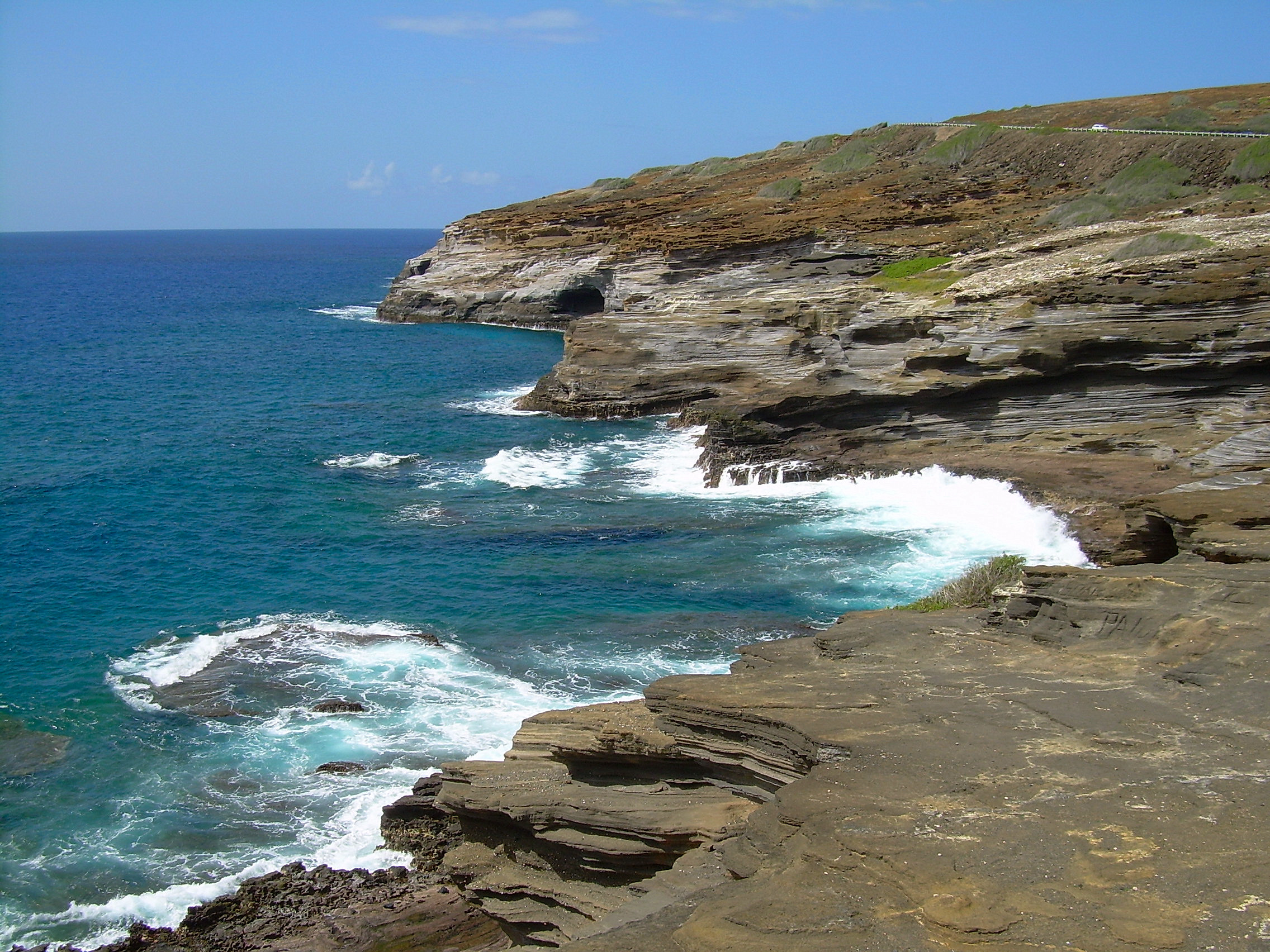 Looking southwest from Lanai lookout (near Koko Crater) on Oahu island